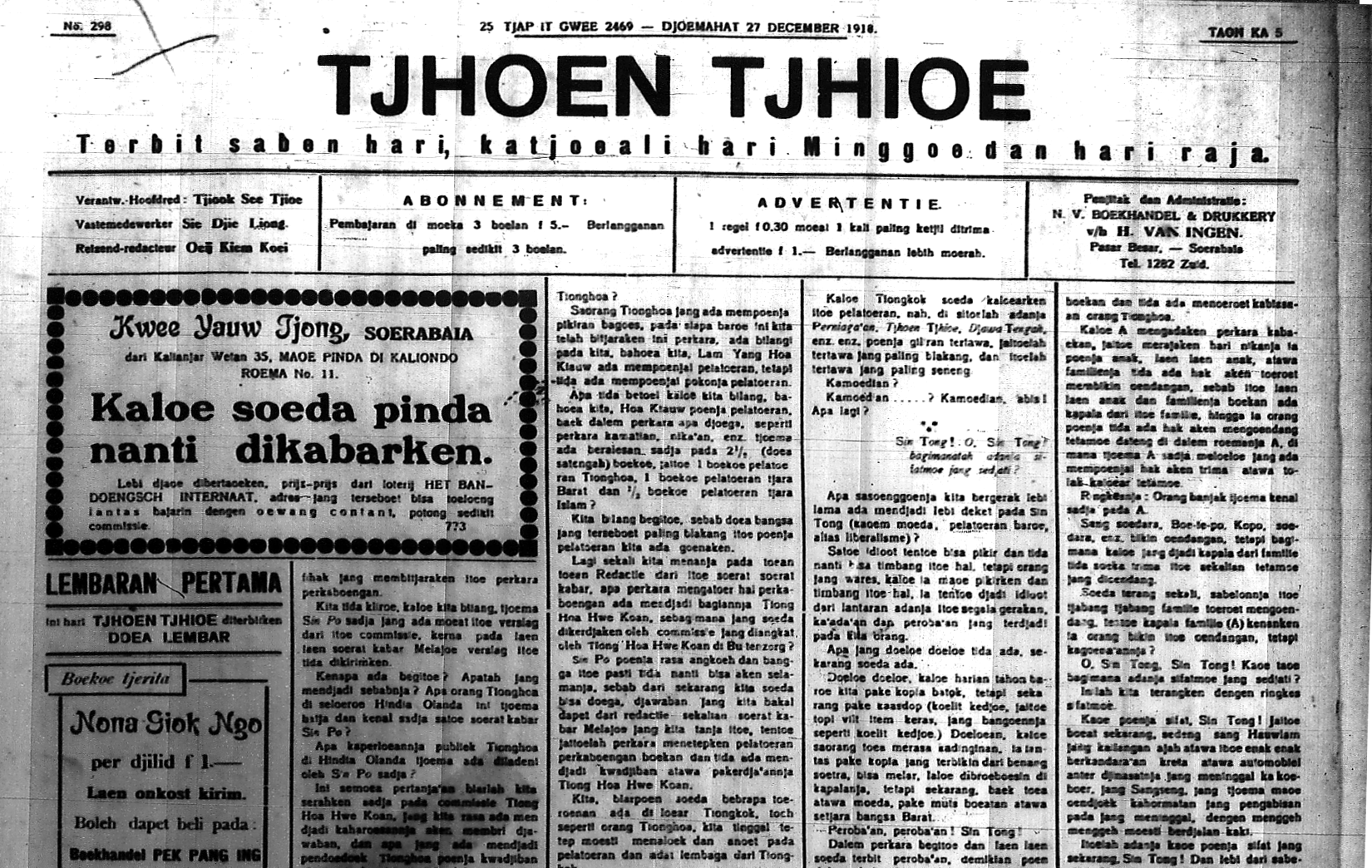 This is the cover page of Tjhoen Tjhioe, a newspaper from Surabaya, Dutch East Indies, from December 27, 1918.